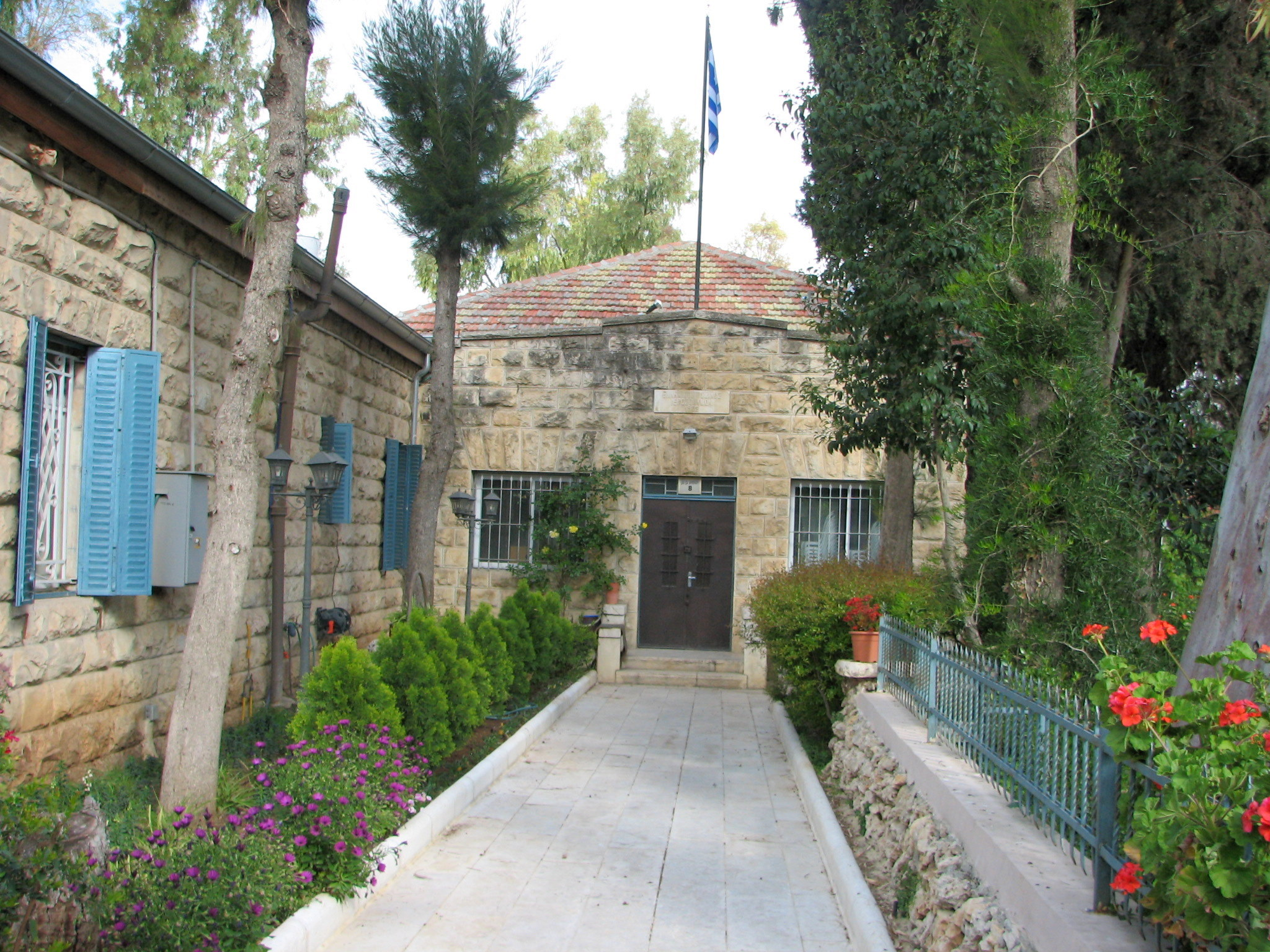 Greek Colony, Jerusalem המושבה היוונית בירושלים This image was taken as part of the Elef Millim project trip to Herodion, which was held on Friday, 9th April 2010. To view all images uploaded as part of the Elef Millim Project החצר במועדון היווני יהושע בן נון 8